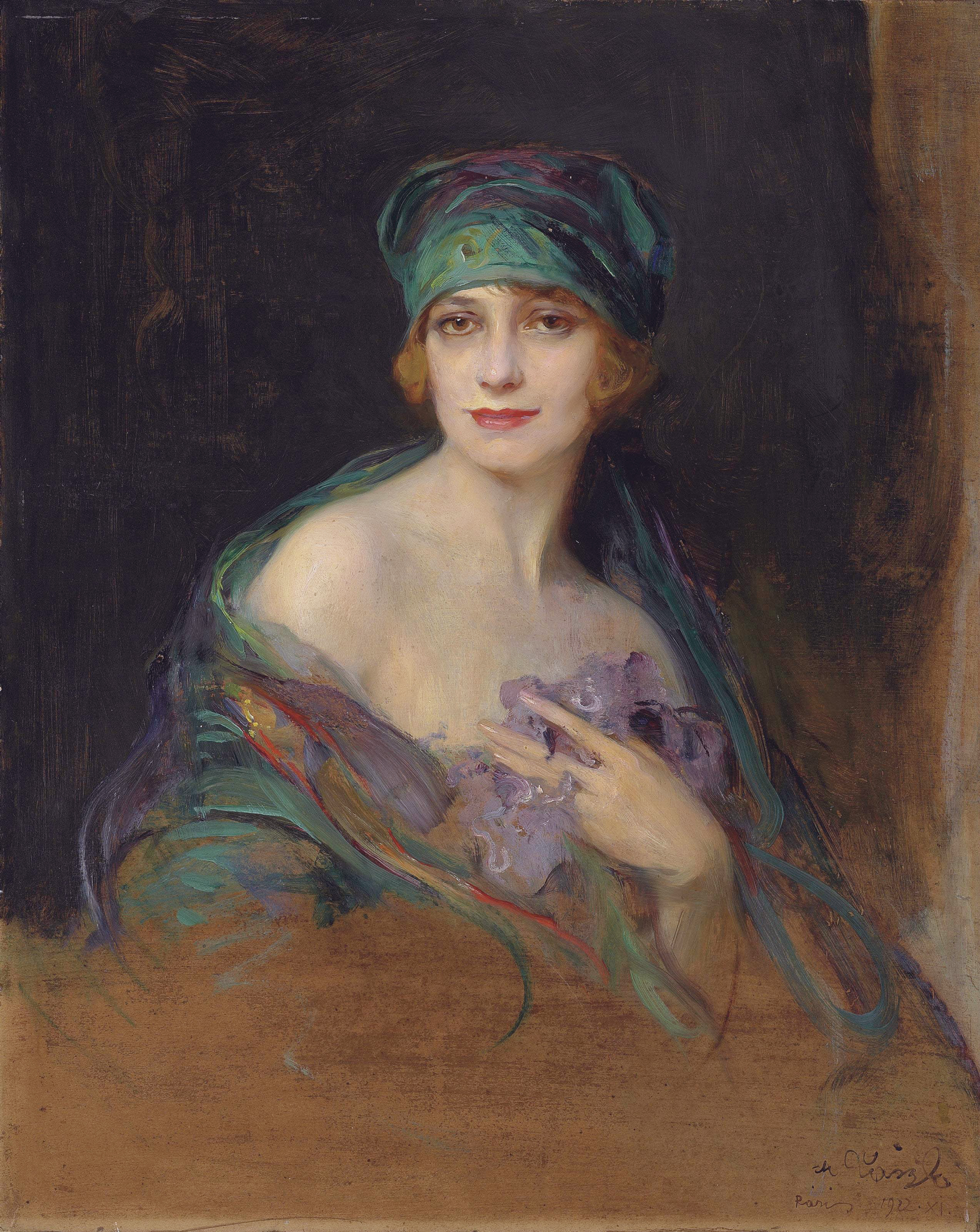 Princess Ruspoli, Duchess de Gramont (1888-1976) oil on board 82 x 66 cm signed l.r.: de Laszlo/Paris 1922.XI.